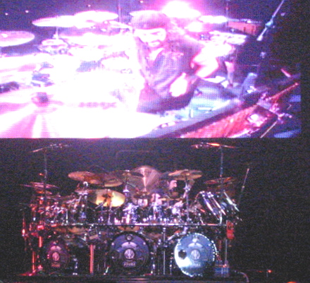 Detail of picture: Mike Portnoy in Rome - big drum-set.JPG available con wikimedia commons. It shows artis Mike Portnoy performing in Rome on 7 February 2004